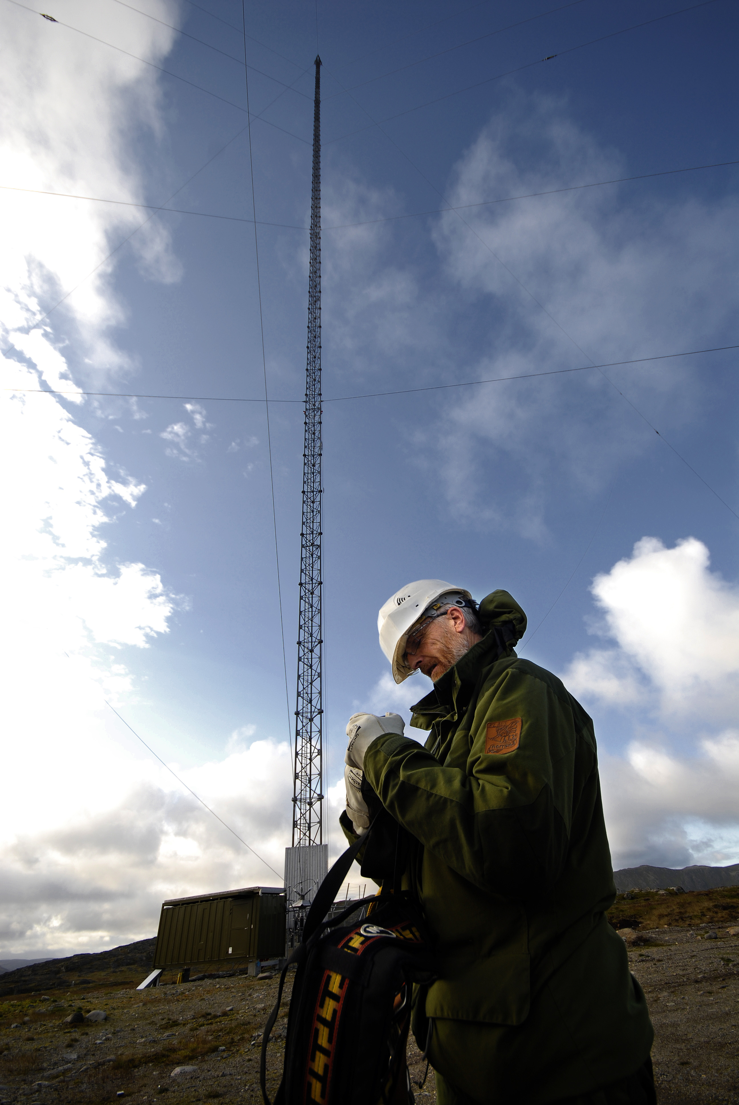 Ingøy long wave transmitter